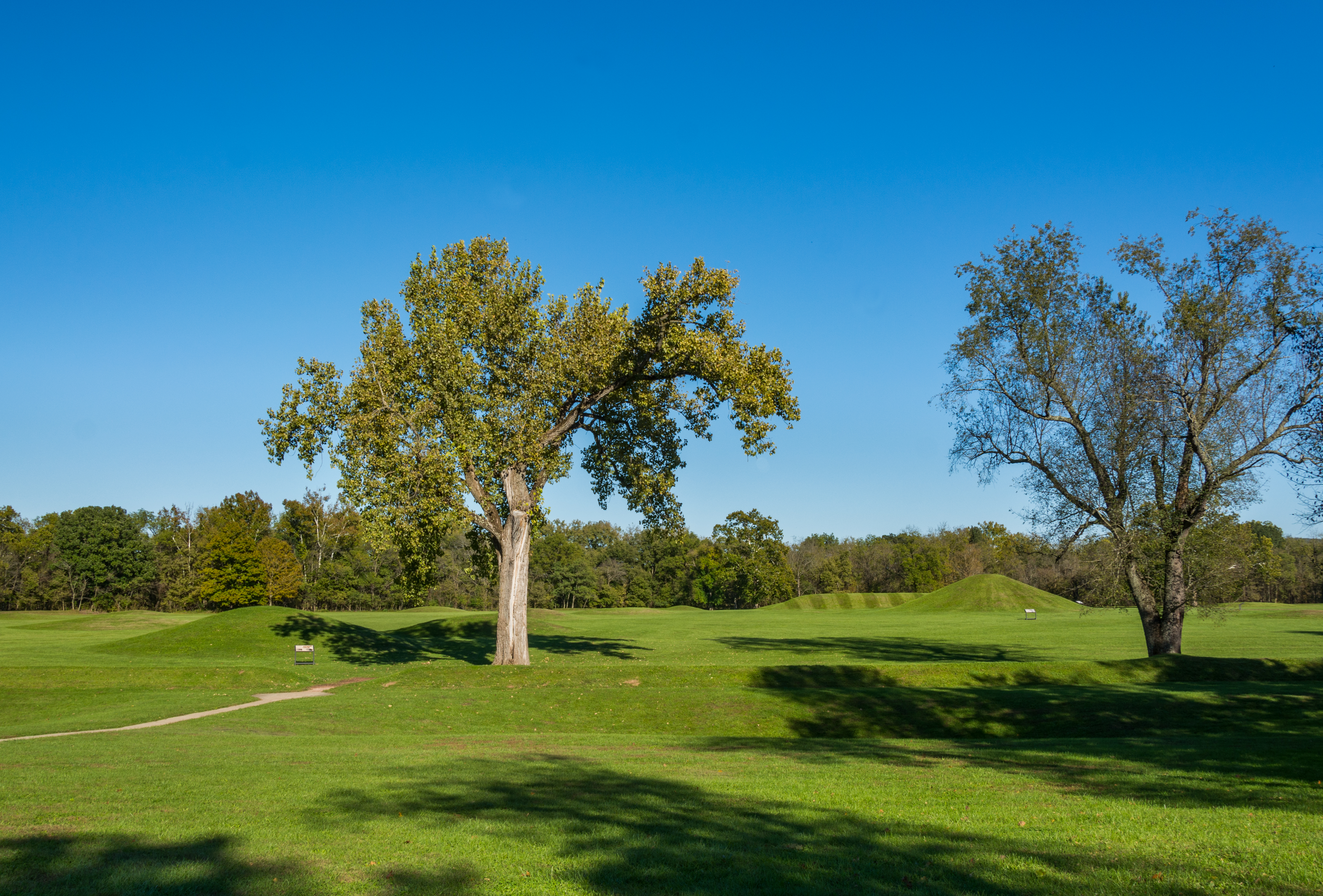 The Hopewell Culture National Historical Park (main site).